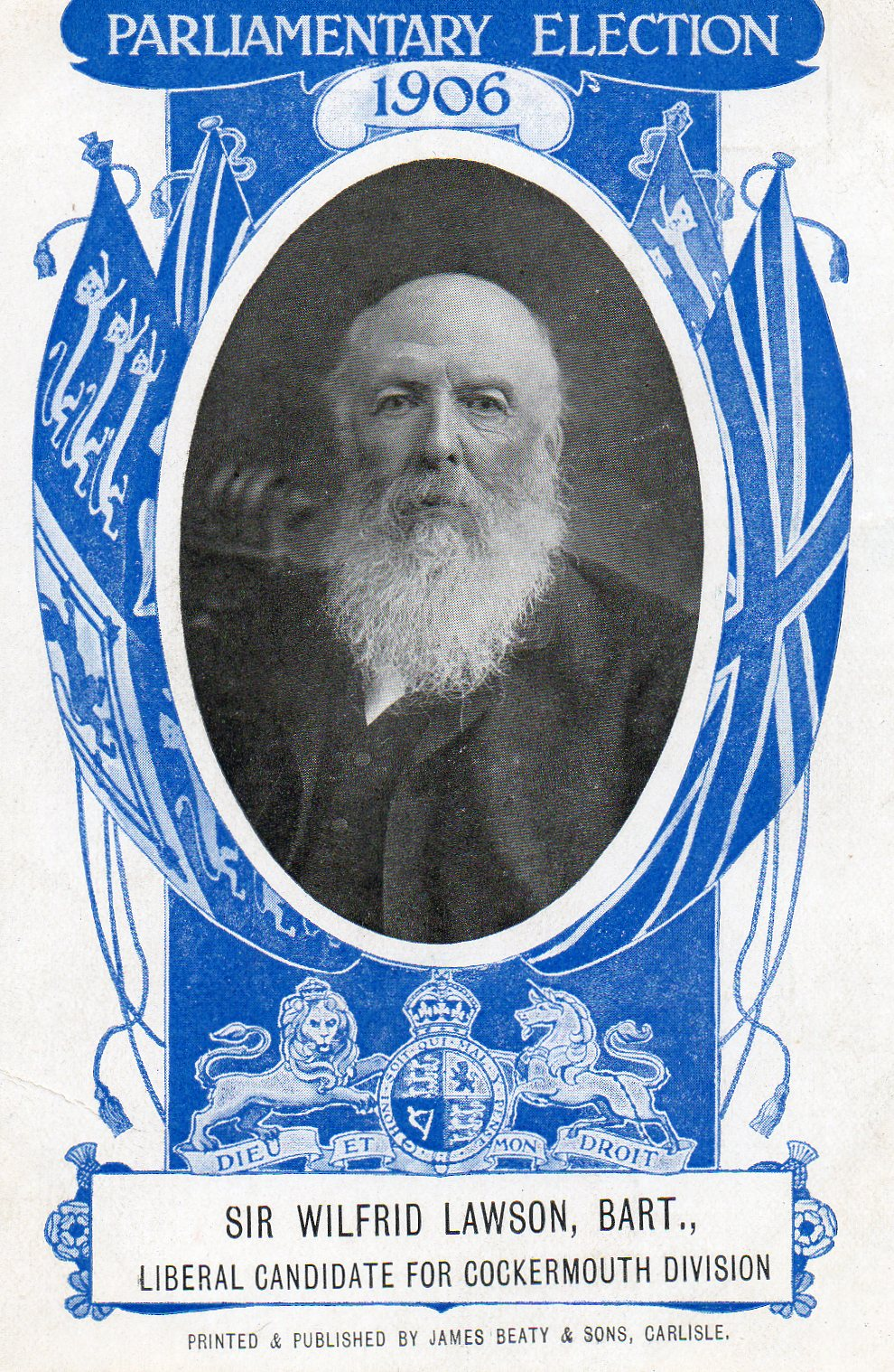 Copy of old postcard circa 1905